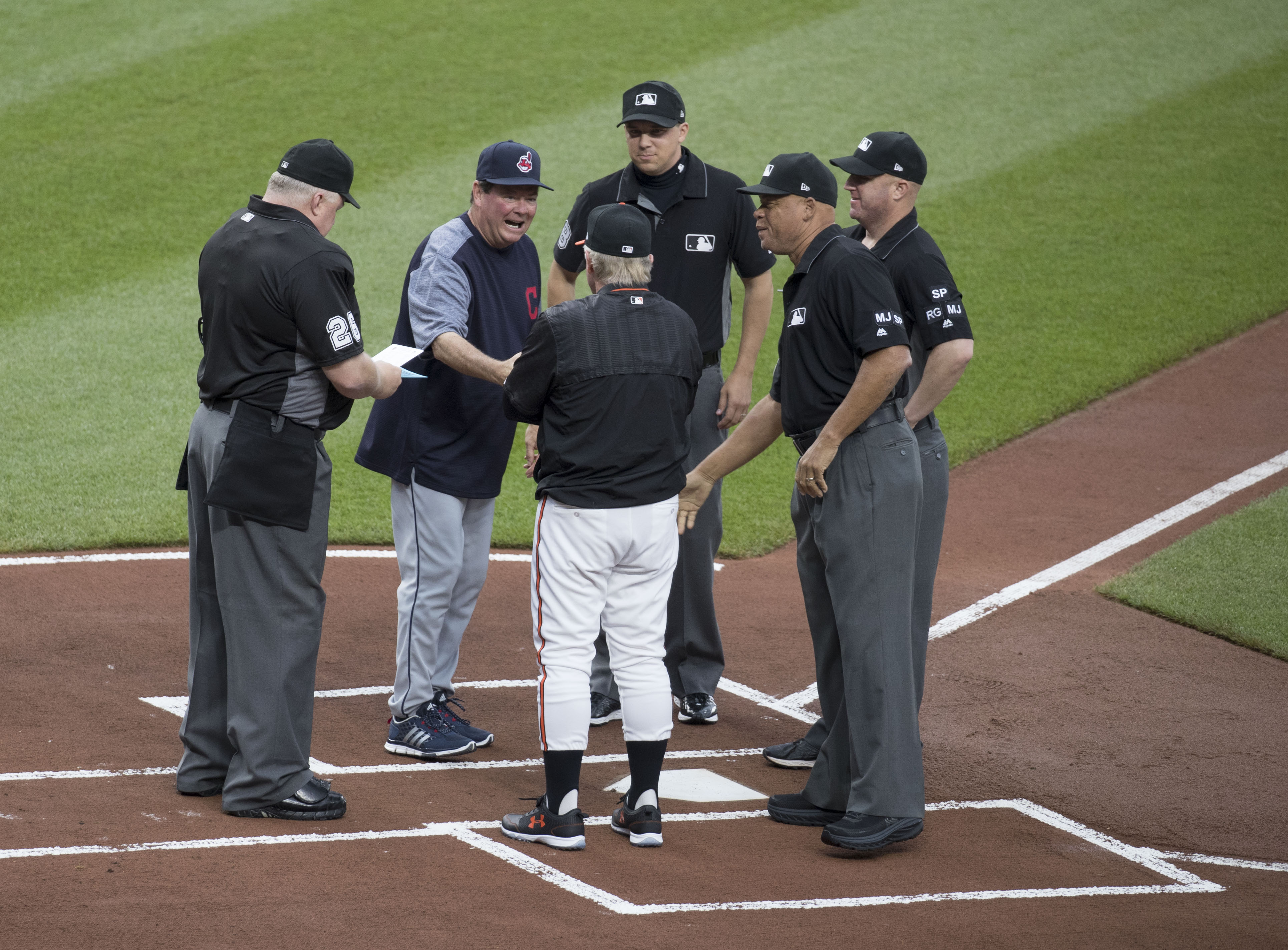 Indians at Orioles 6/19/17